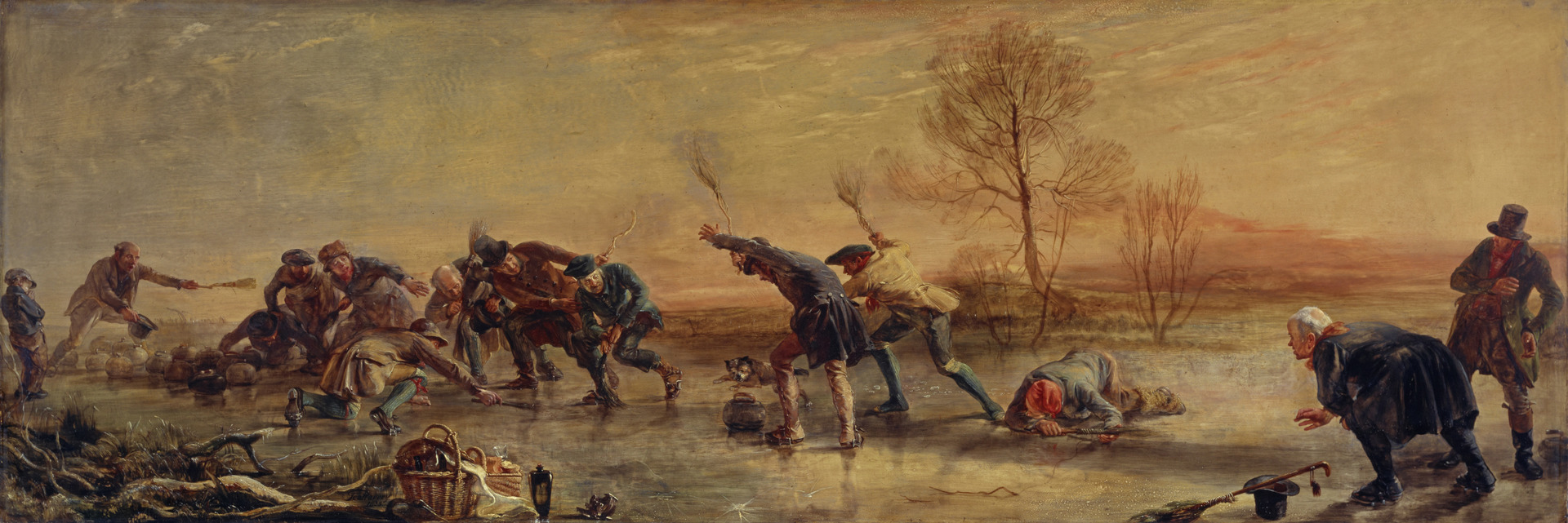 title: The Curlers accession number: NG 2641 artist: Sir George Harvey - Scottish (1806 - 1876) gallery: In Storage object type: Painting subject: Sport and leisure materials: Oil on panel date created: 1835 measurements: 55.80 x 167.70 cm (framed: 72.70 x 188.90 x 7.30 cm) credit line: Purchased 1995 photographer: Antonia Reeve